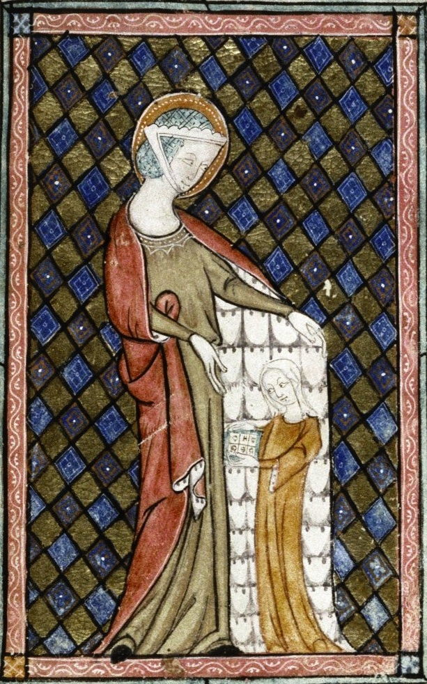 St. Anne with a robe lined with squirrel (English, c. 1300). Coloured Version